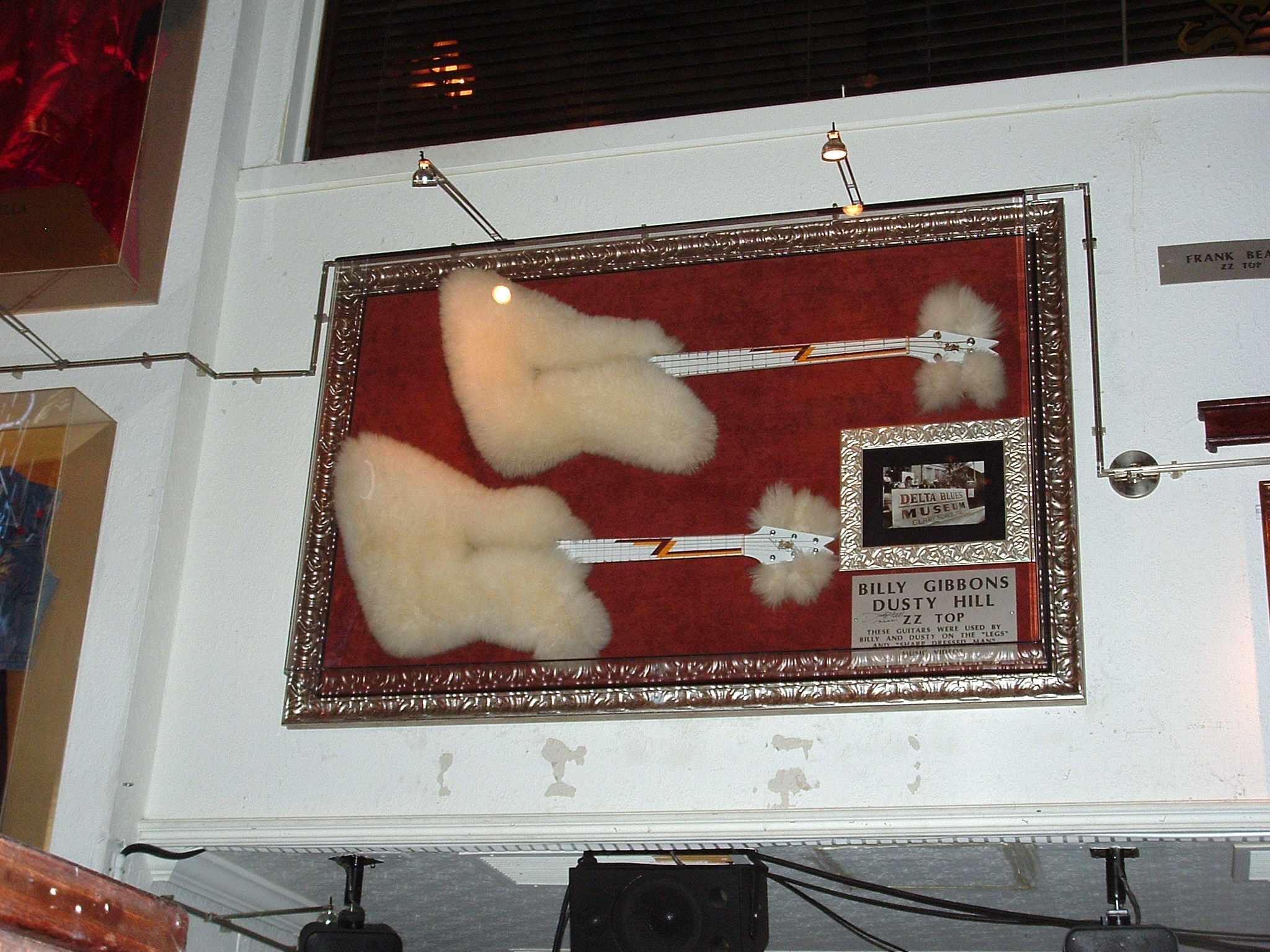 The Hard Rock Cafe in Dallas was closing so my sister and I went before they closed. I believe the building has been torn down.